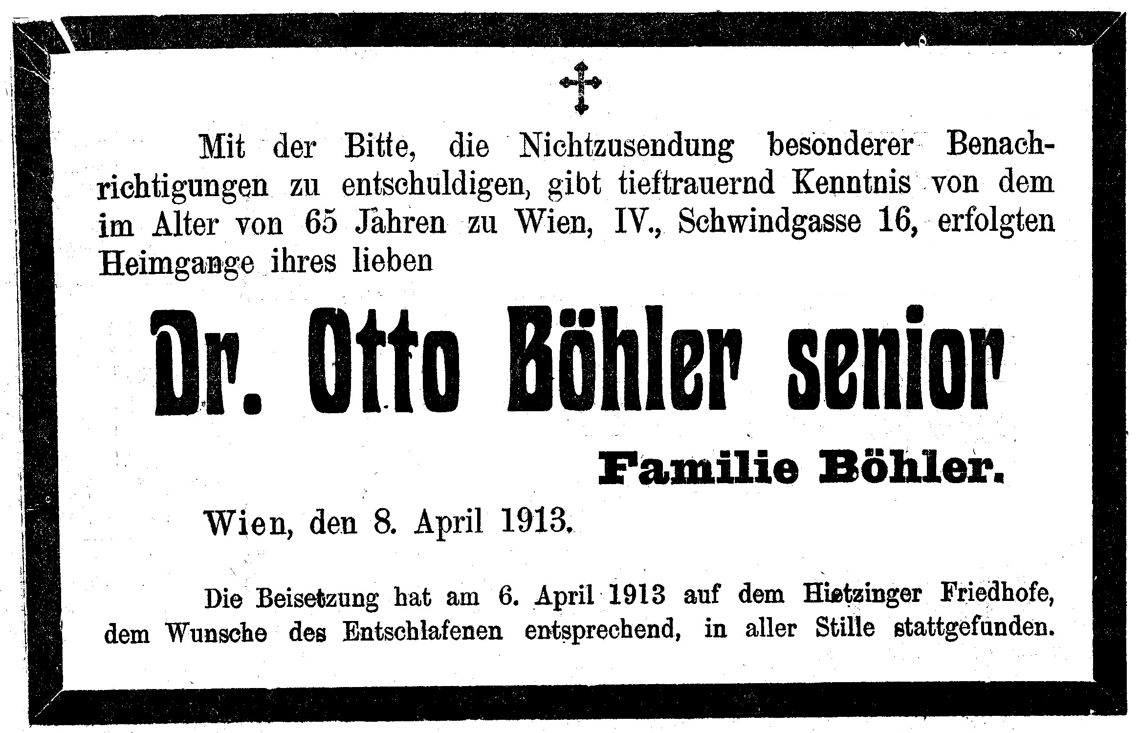 death notice of Otto Böhler